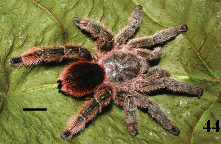 Pachistopelma rufonigrum female. Scale bar = 10 mm.